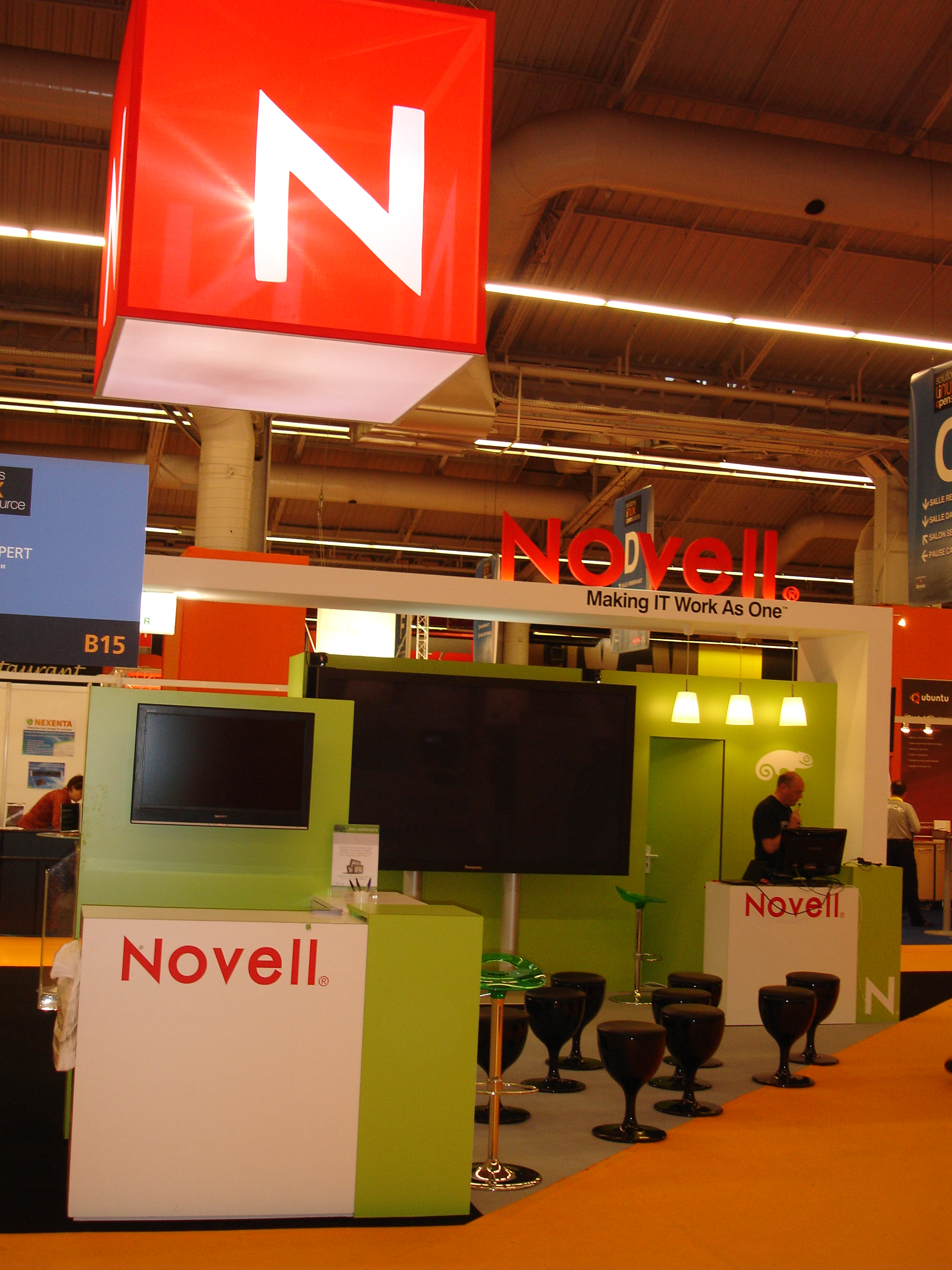 The Novell booth at the Solutions Linux 2009 trade show held in Paris, France.